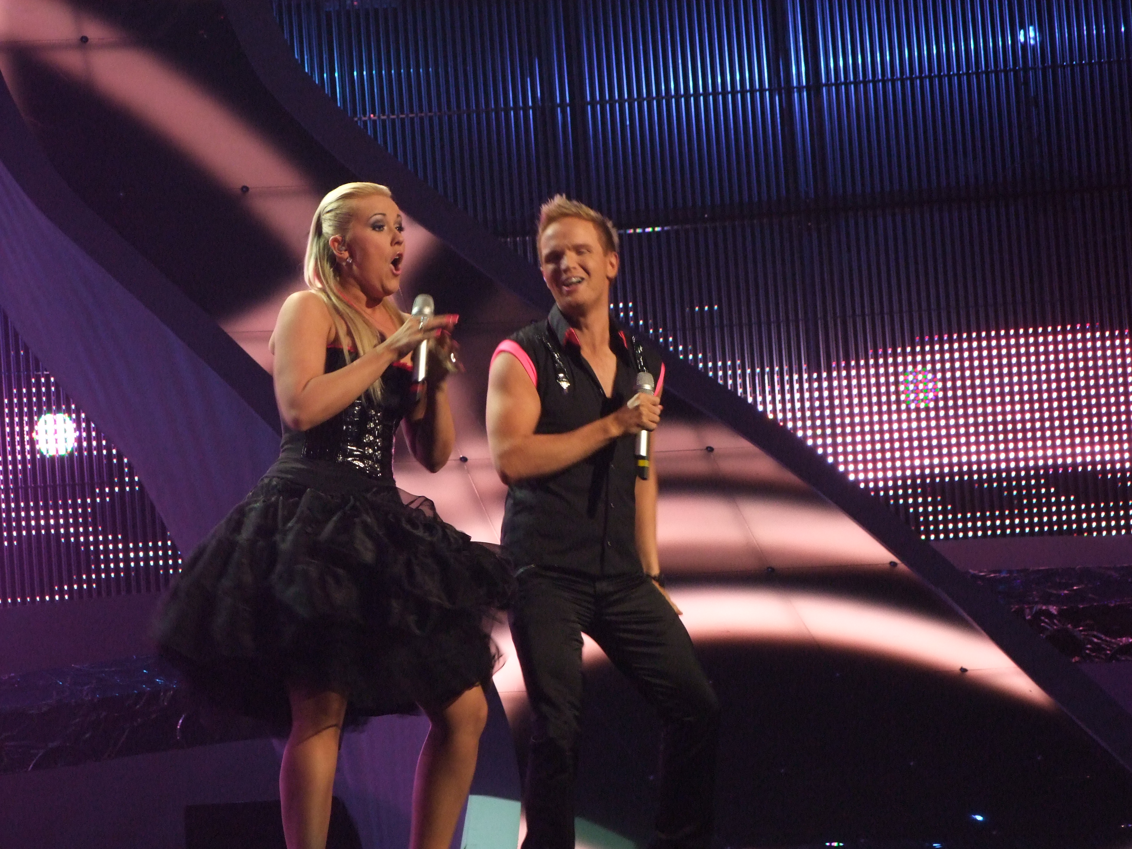 Eurobandið in the 2nd semi-final at the Eurovision Song Contest in Belgrade, Serbia, May 22, 2008.